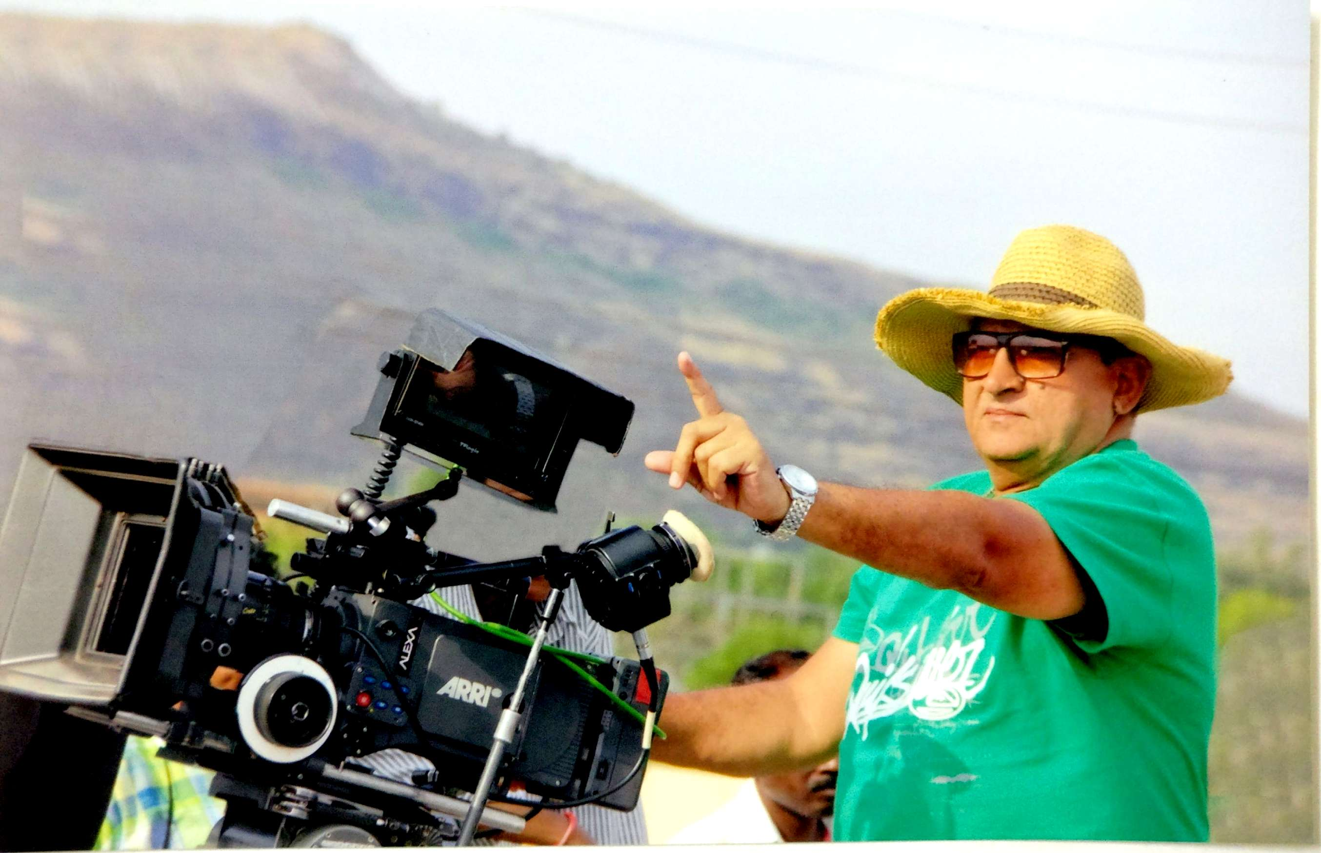 Writer, director Ranbir Pushp on a shoot in 2017